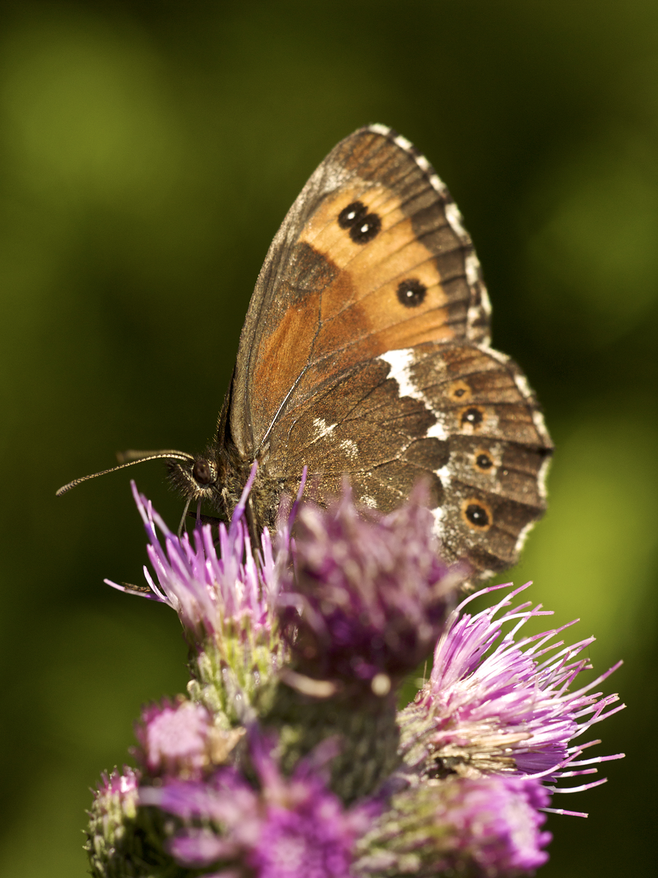 Arran Brown (Erebia ligea), Reitzenhain, Germany